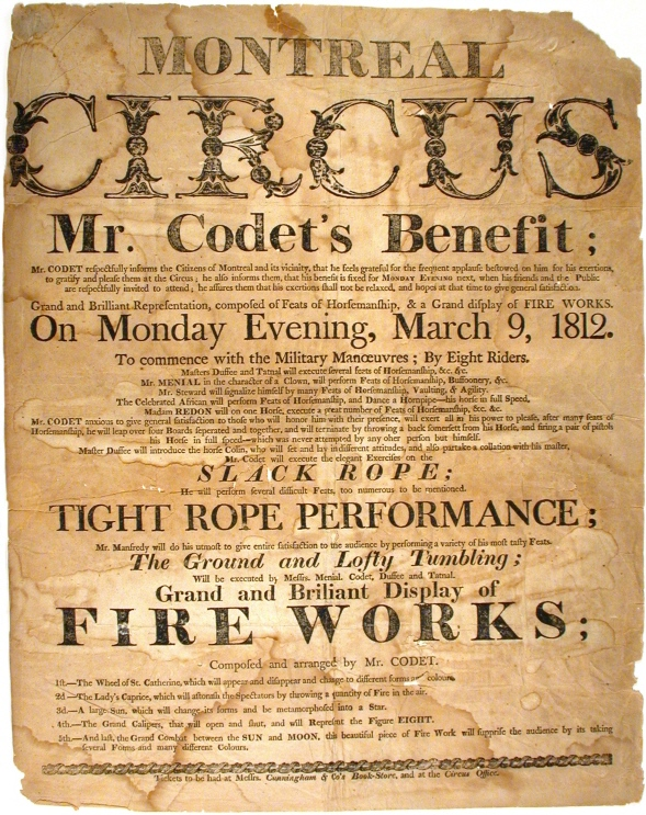 "Montreal Circus, Mr. Codet's Benefit." Poster for the circus. Montreal, Canada.